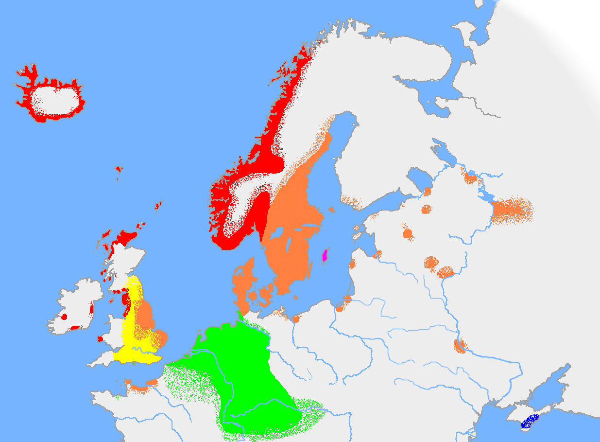 The approximate extent of Old Norse and other Germanic languages in the early 10th century. Old West Norse Old East Norse Old Gutnish Old English (West Germanic) Continental West Germanic languages, with which Old Norse still retained some mutual intelligibility (viz. Old Frisian, Old Saxon, Old Dutch, Old High German). Crimean Gothic (East Germanic) See also: Template:Old Norse language map - a template on the English Wikipedia containing this map and key.